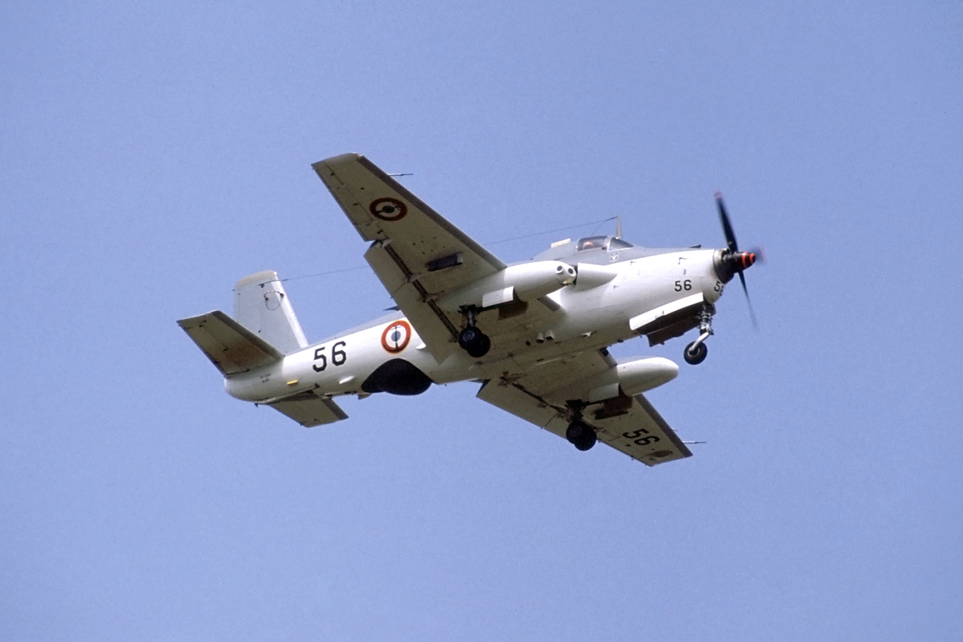 Greenham Common, 22 July 1983. Breguet Br.1050 Alizé in the old colours: white and grey. It's arriving for the International Air Tattoo. 56 was in use by Flottille 4F at Base Aéronavale de Lann Bihoué. The last Alizé (French for trade wind) was retired in 2000. The flottille now flies three E-2 Hawkeyes.